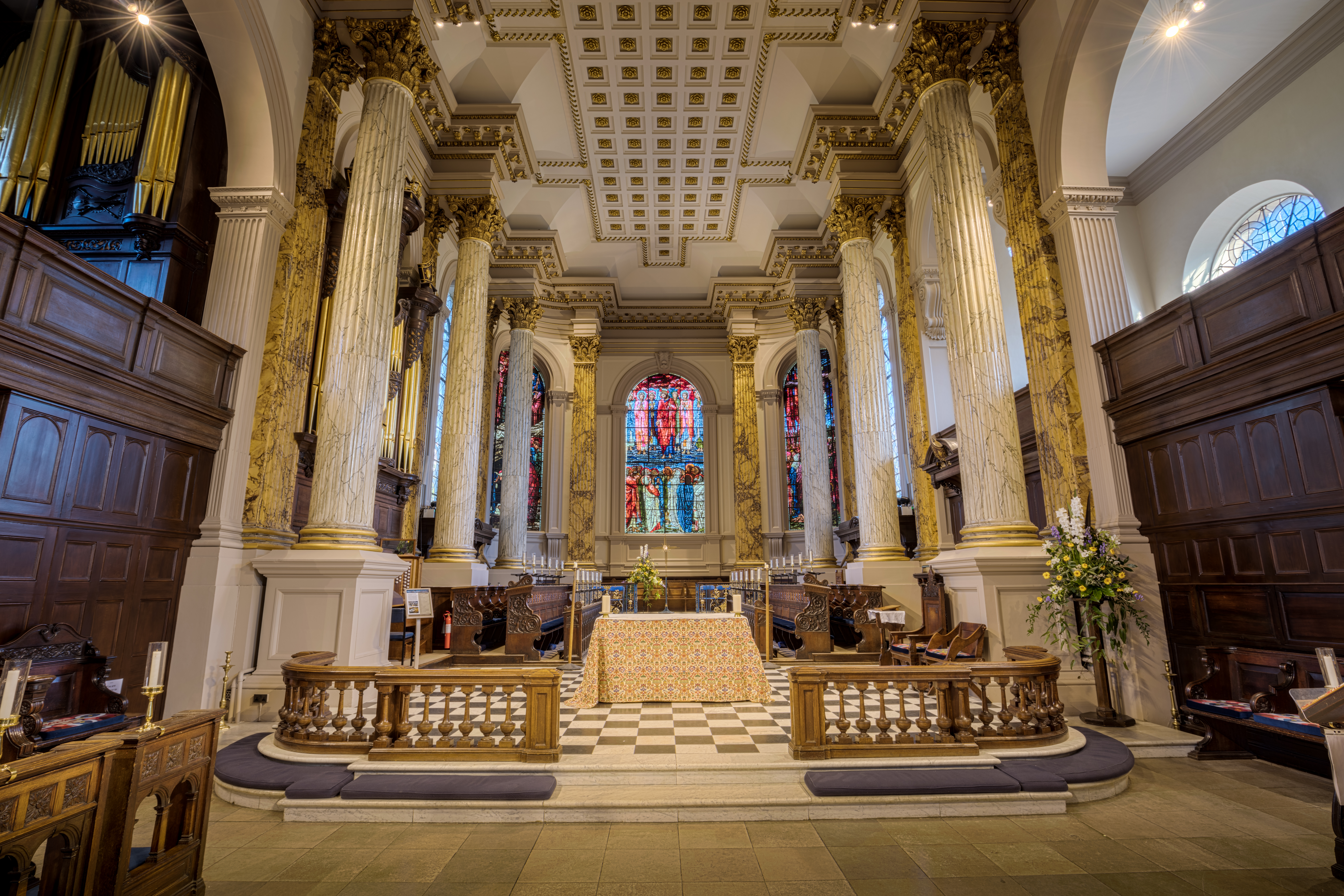 Here is an hdr photograph taken from the altar inside The Cathedral Church of St Philip. Located in Birmingham, England, UK.